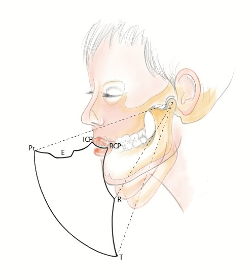 Posselts envelope of movement depicts the path that the mandible takes during movement. Together each point represents the border limitations of the mandible. Pr - Maximum protrusion, E - Edge to edge position of the incisors, ICP/RCP - Condylar sliding movement represented clinically as tooth to tooth contact positions, R - Maximum mandibular opening condyles rotate but do not translate, T - Maximum mandibular opening with maximum translation of the condylar heads. (Aberdeen University)